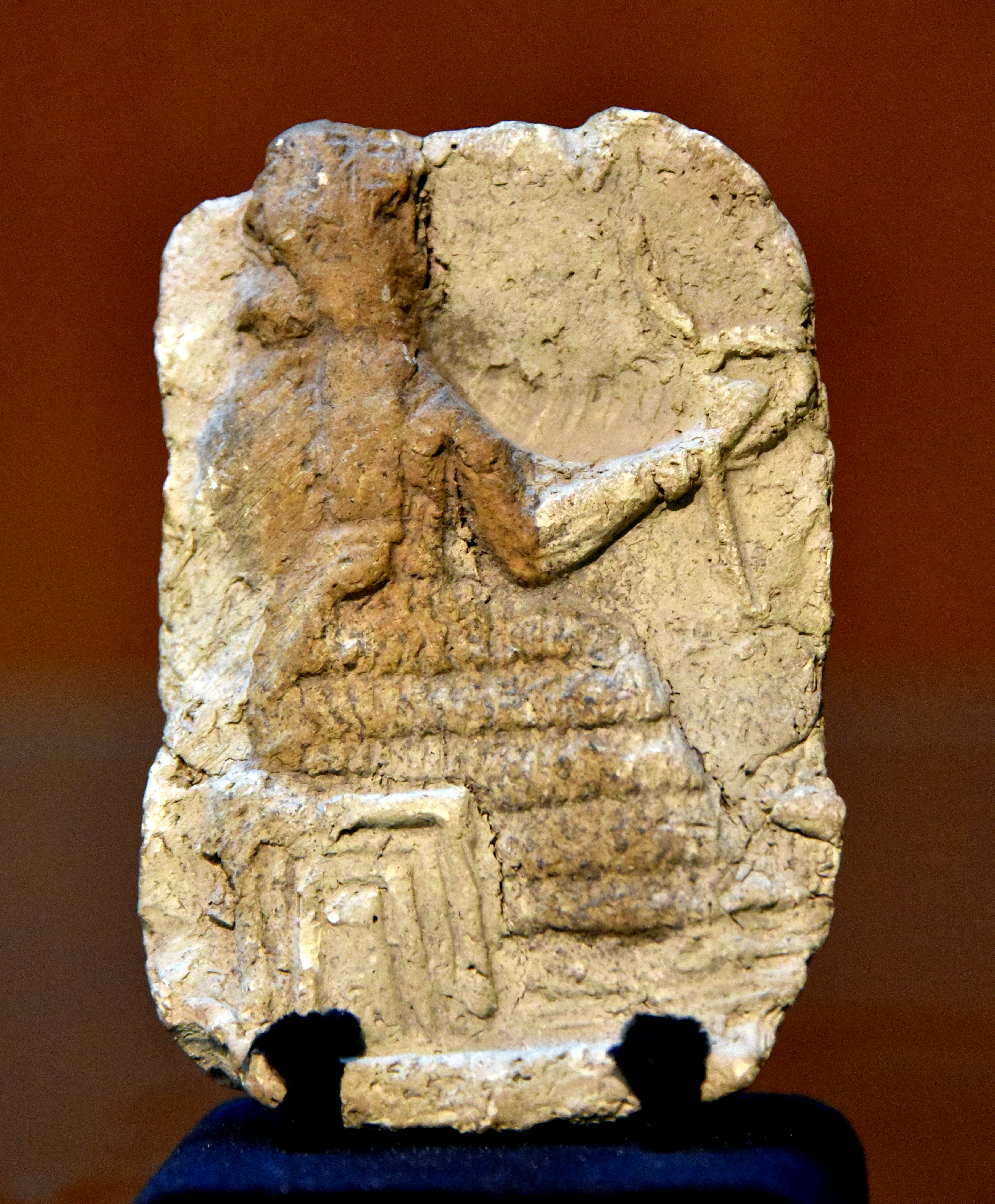 Unidentified Mesopotamian deity sitting on a stool, holding the rod-and-ring symbol. The overall depiction is very similar, and almost identical, to that of god Shamash on Hammurabi's code of laws stele. Old-Babylonian period, 2003-1595 BCE. Fired clay plaque from Southern Mesopotamia, Iraq. The Sulaymaniyah Museum, Iraqi Kurdistan.